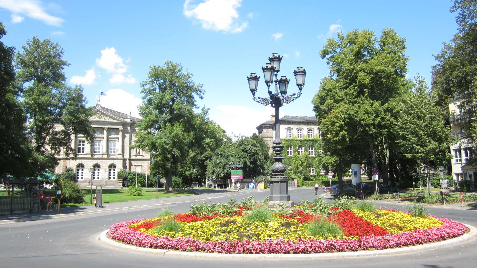 Theaterplatz (theater square) in Göttingen, Germany, with Deutsches Theater (German theater) in the background.